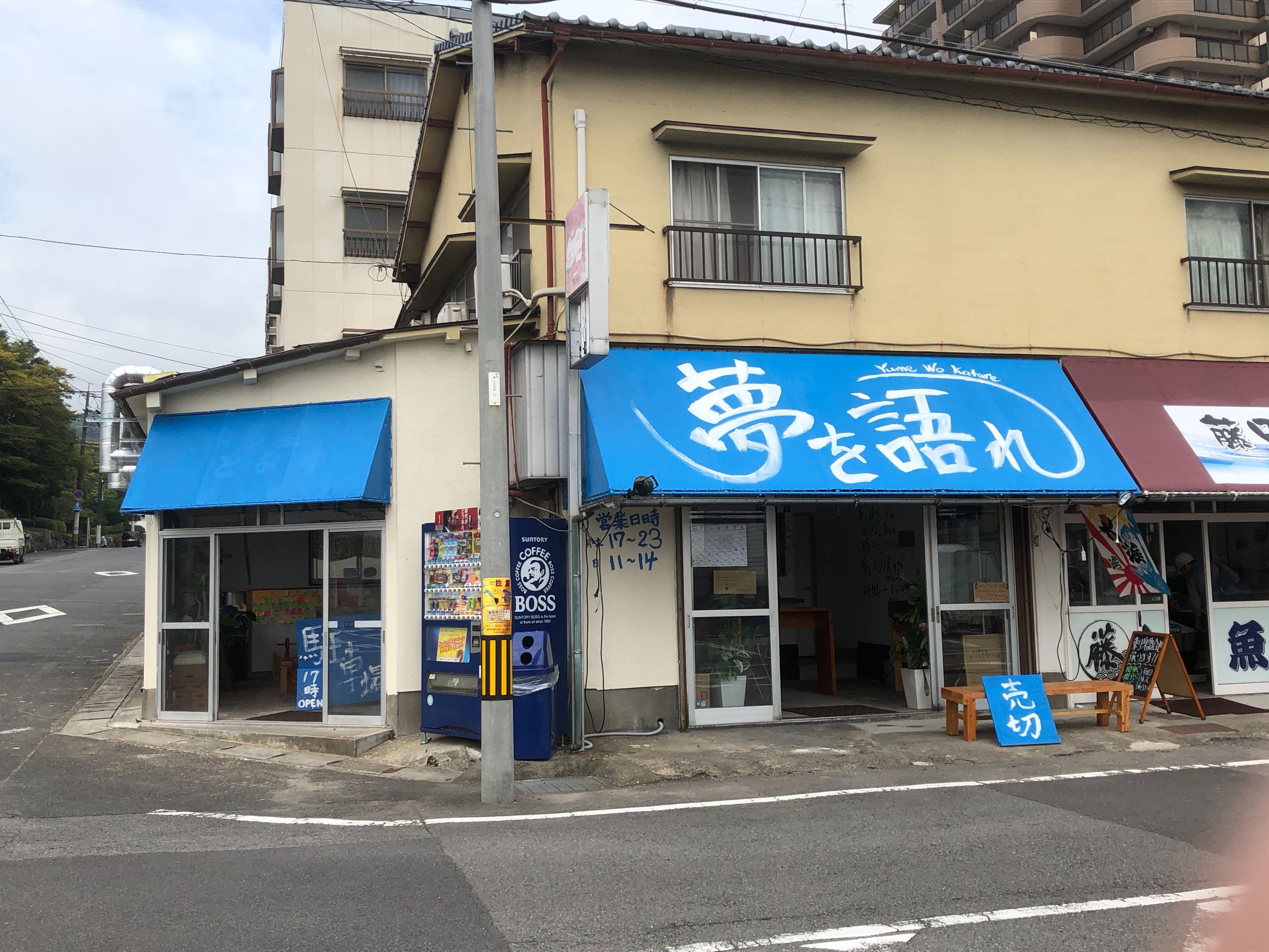 Yume Wo Katare Beppu located in Ishigaki-Higashi, Beppu, Oita Prefecture